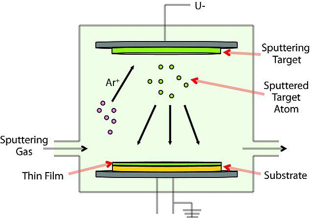 Physical Vapor Deposition (PVD)